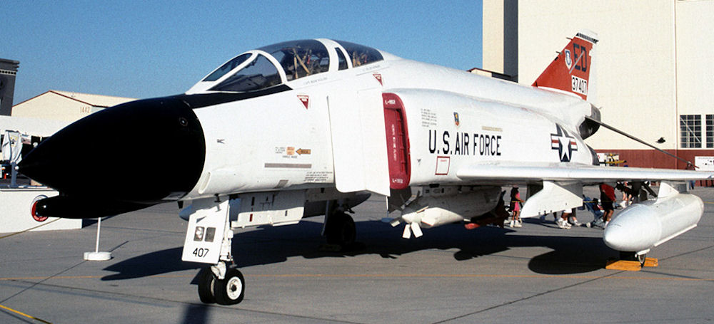 6512th Test Squadron - McDonnell F-4C-15-MC Phantom 63-7407 7407 was first F-4C built for USAF. Converted to NF-4C. Now at Air Force Flight Test Center Museum Airpark, Edwards AFB, CA.